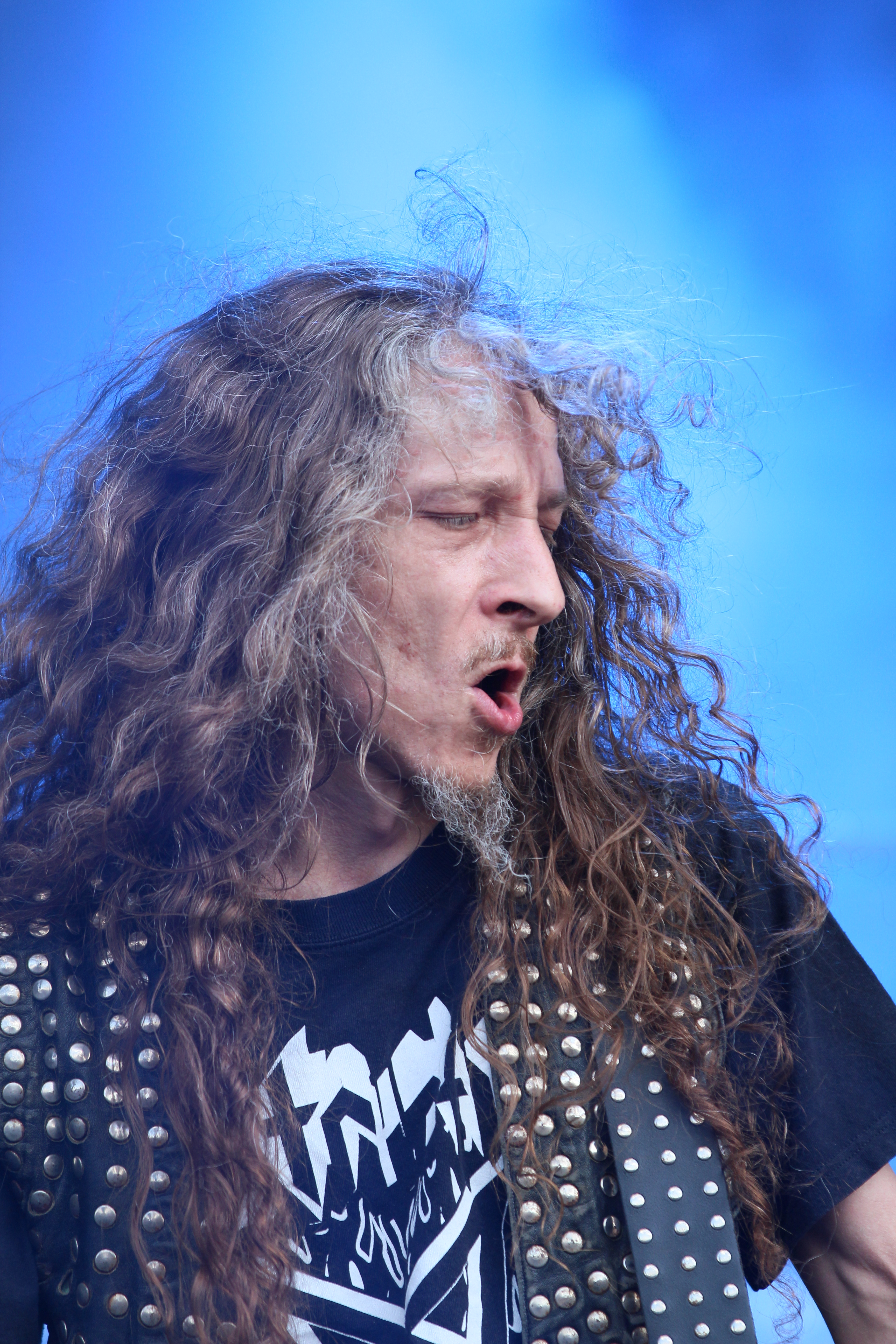 The German thrash metal band Destruction at the Rockharz Open Air 2014 in Ballenstedt/Germany